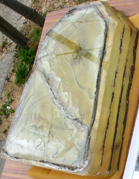 Bulletproof safety glass